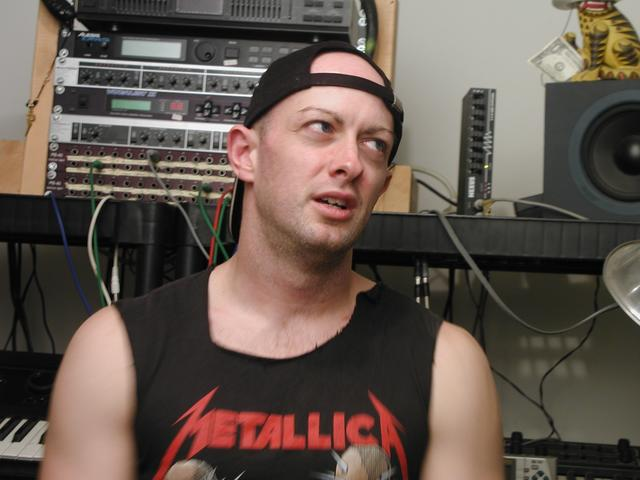 Grandmaster Ratte' from BBS: The Documentary